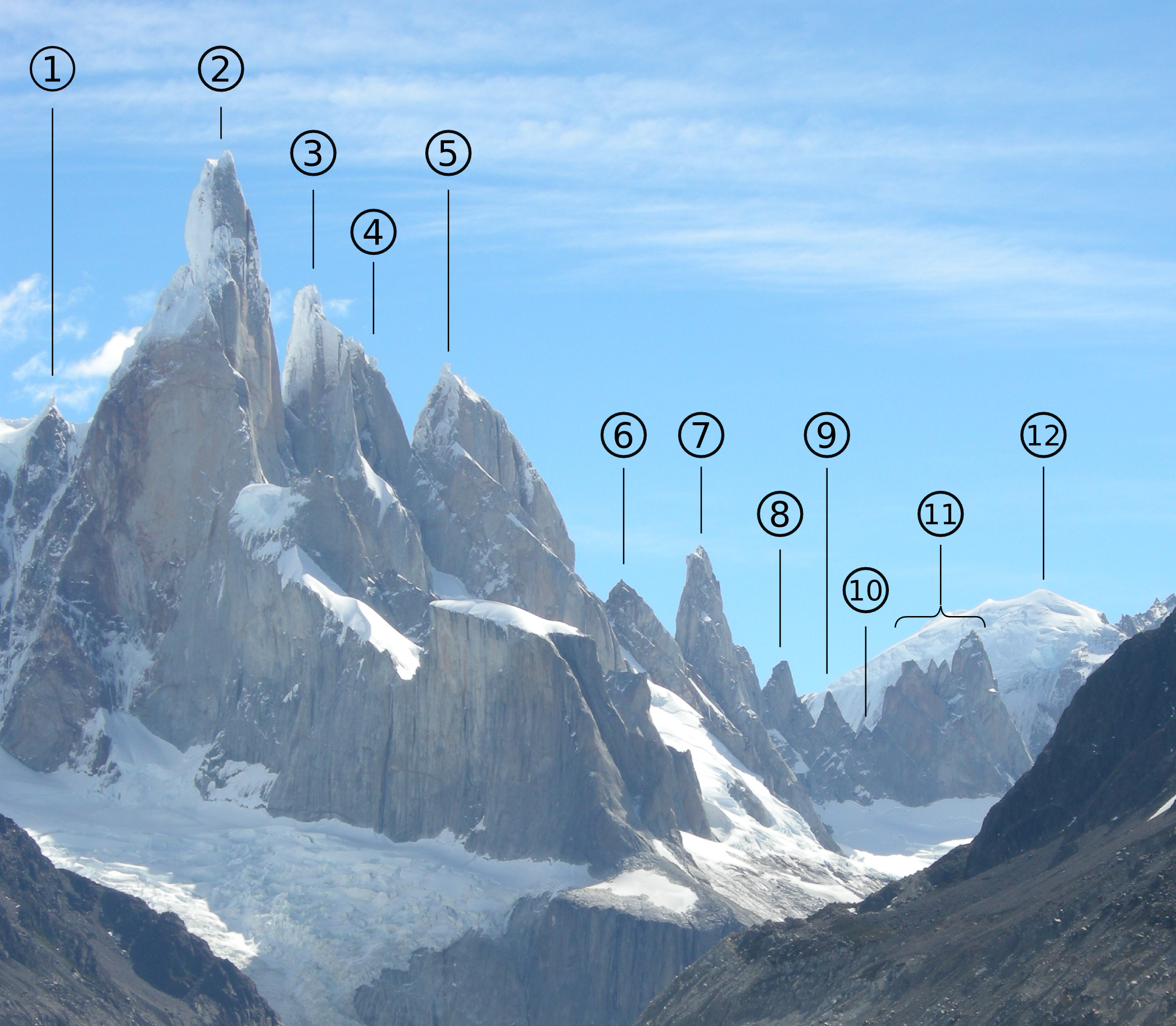 East face of the cerro Torre group (Fitz Roy massif, Santa Cruz Province, Argentina) taken from the Laguna Torre, and with names as following: 1: Torre Rafael Juárez 2: Cerro Torre 3: Torre Egger 4: Punta Herron 5: Aguja Standhart 6: Perfil del Indio 7: Aguja Bífida 8: Torre Pachamama 9: Torre Achachila 10: Torre Inti 11: Cuatro Dedos 12: Domo Blanco